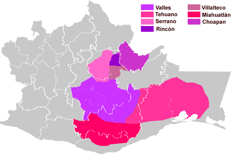 Based on Ernesto Díaz-Couder (1996): "Ecología de la lengua zapoteca en la Sierra Norte de Oaxaca" in Español y lenguas indoamerindias: estudios y aplicaciones, UAM-Iztapalapa, México DF, ISBN 970-620-892-5.